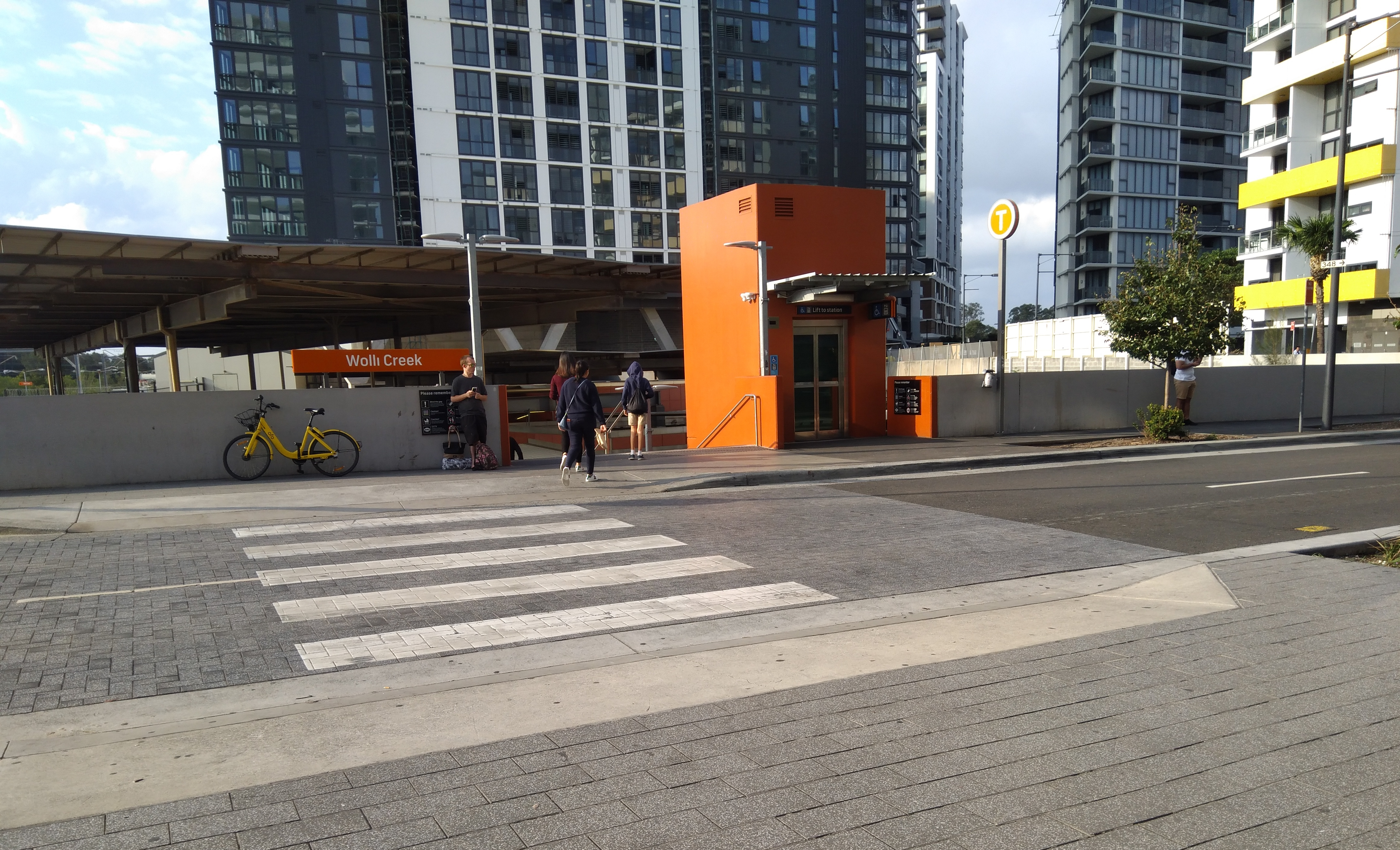 Entrance to Wolli Creek railway station.